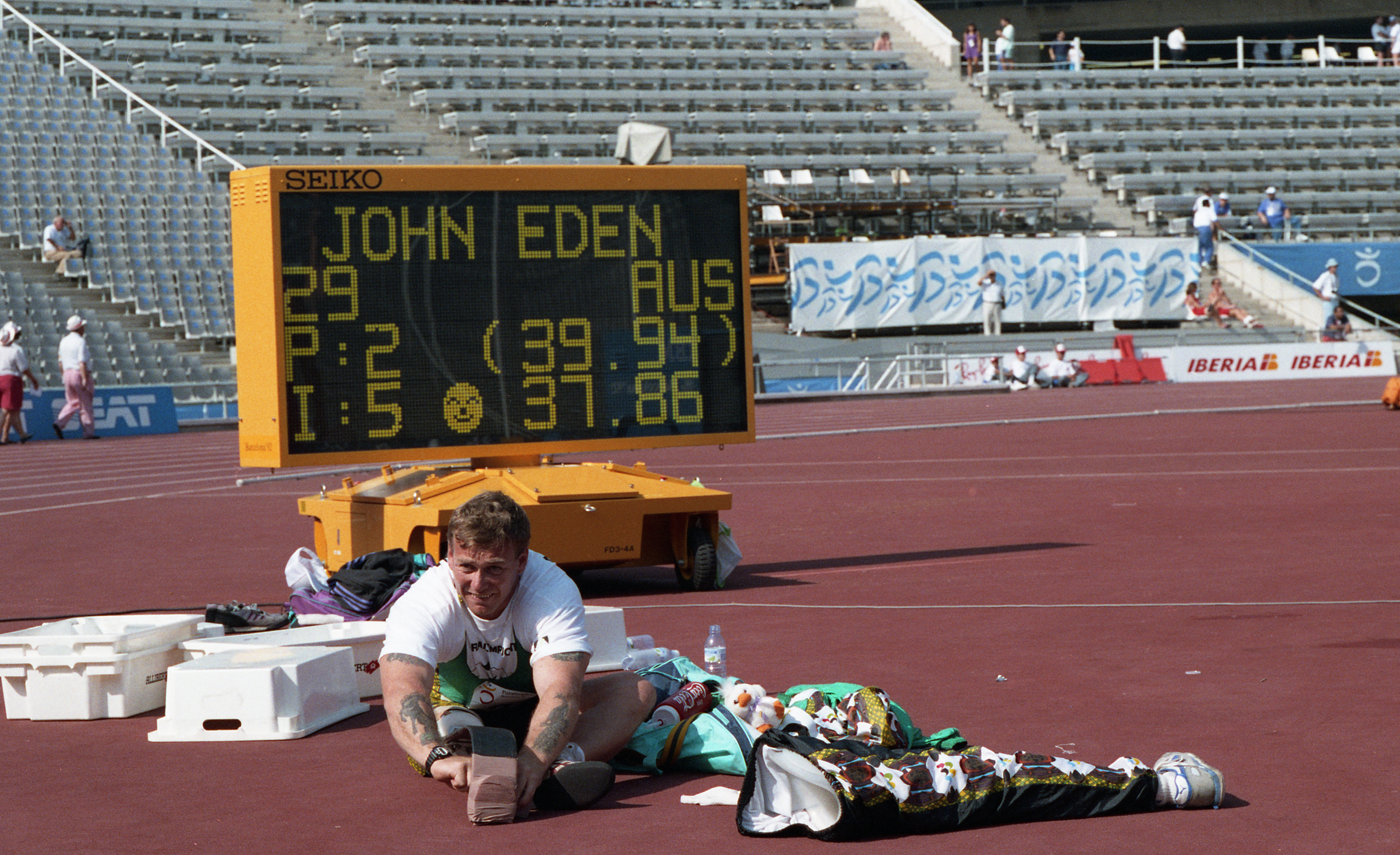 Australian athlete John Eden stretching during the discus throw at the 1992 Summer Paralympics in Barcelona.